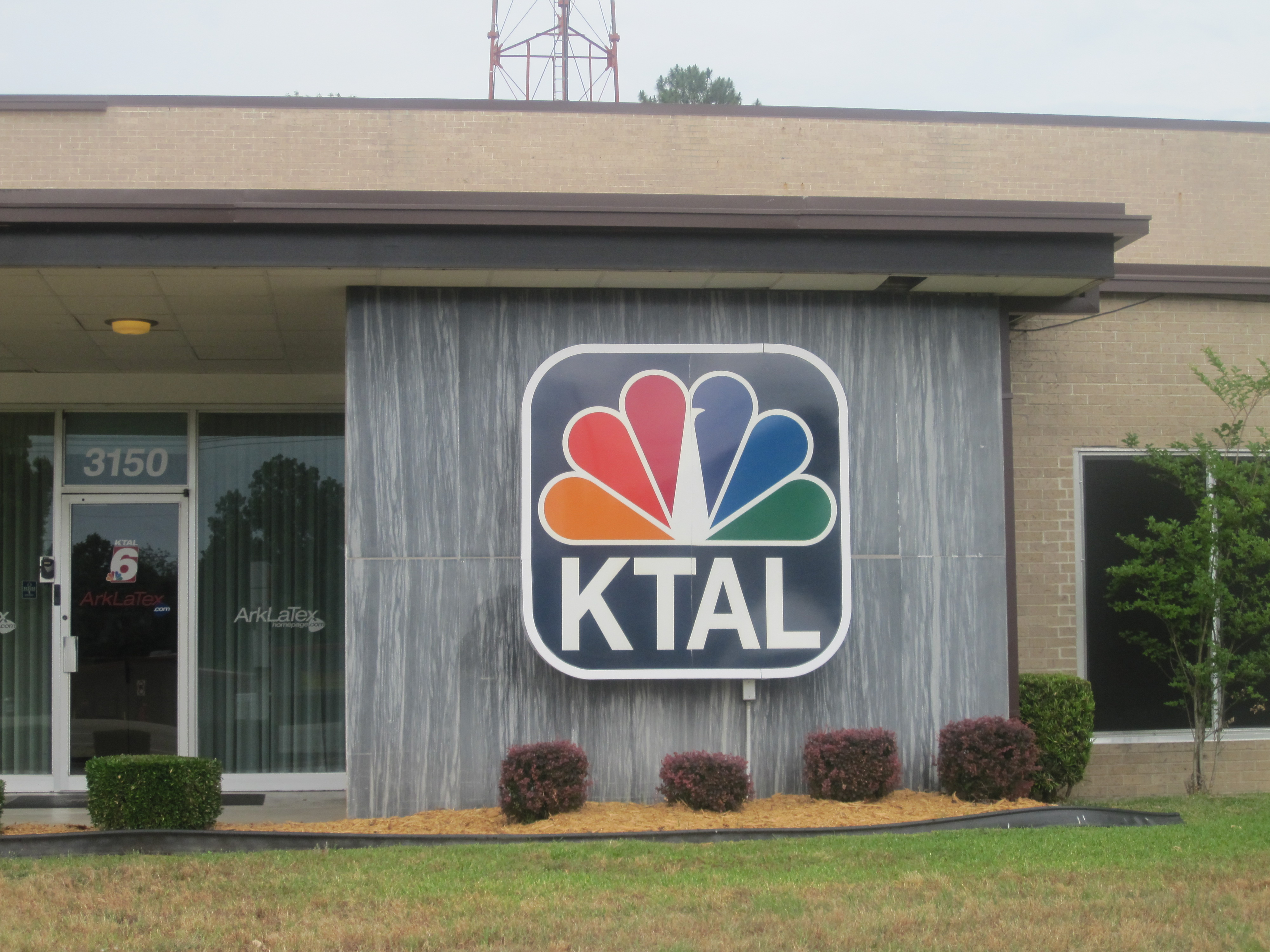 I took photo with Canon camera.